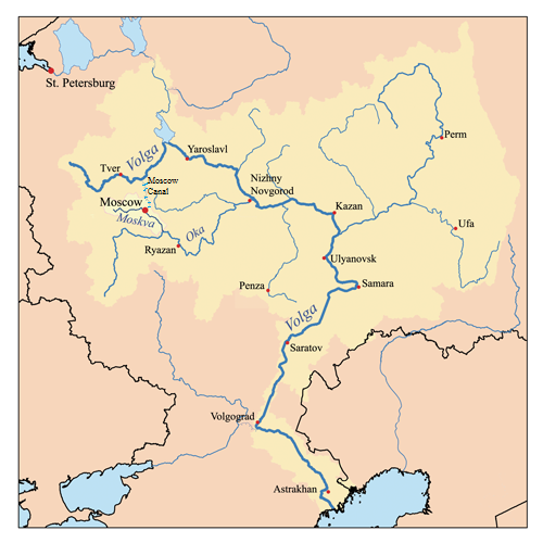 This is a map of the Volga River system with the Moskva River highlighted. I, Karl Musser, created it based on USGS data.